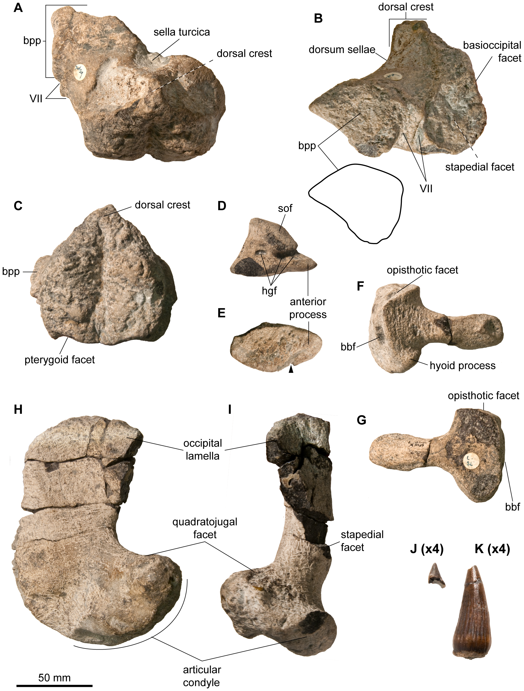 Basicranium, quadrate, and dentition of Acamptonectes densus (GLAHM 132588, holotype). A–C: basisphenoid, in dorsal view (A), in lateral view (B), and in posterior view (C). The thick and claw-like shape of the basipterygoid process in lateral view in shown in B. Note the dorsal crest and the paired facialis (VII) nerve foramen. D,E: left exoccipital, in medial view (D) and ventral view (E). The arrow indicates a notch that matches a small bump on the dorsal surface of the basioccipital, suggesting a close fit of these bones (and therefore a thin cartilage layer) that we interpret as indicator of a mature age. F,G: left stapes, in anteromedial view (F) and posterolateral view (G). Note the slenderness of the shaft compared to the occipital head. H,I: left quadrate, in lateral view (H) and posterior view (I). J,K: fragmentary tooth crowns magnified four times with respect to the other bones. Note the subtle striations and the constriction at the base of the crown in K. Abbreviations: bbf: facet for basioccipital and basisphenoid; bpp: basipterygoid process; hgf: hypoglossal foramina; sof: supraoccipital facet; VII: foramen for the facialis nerve (VII).